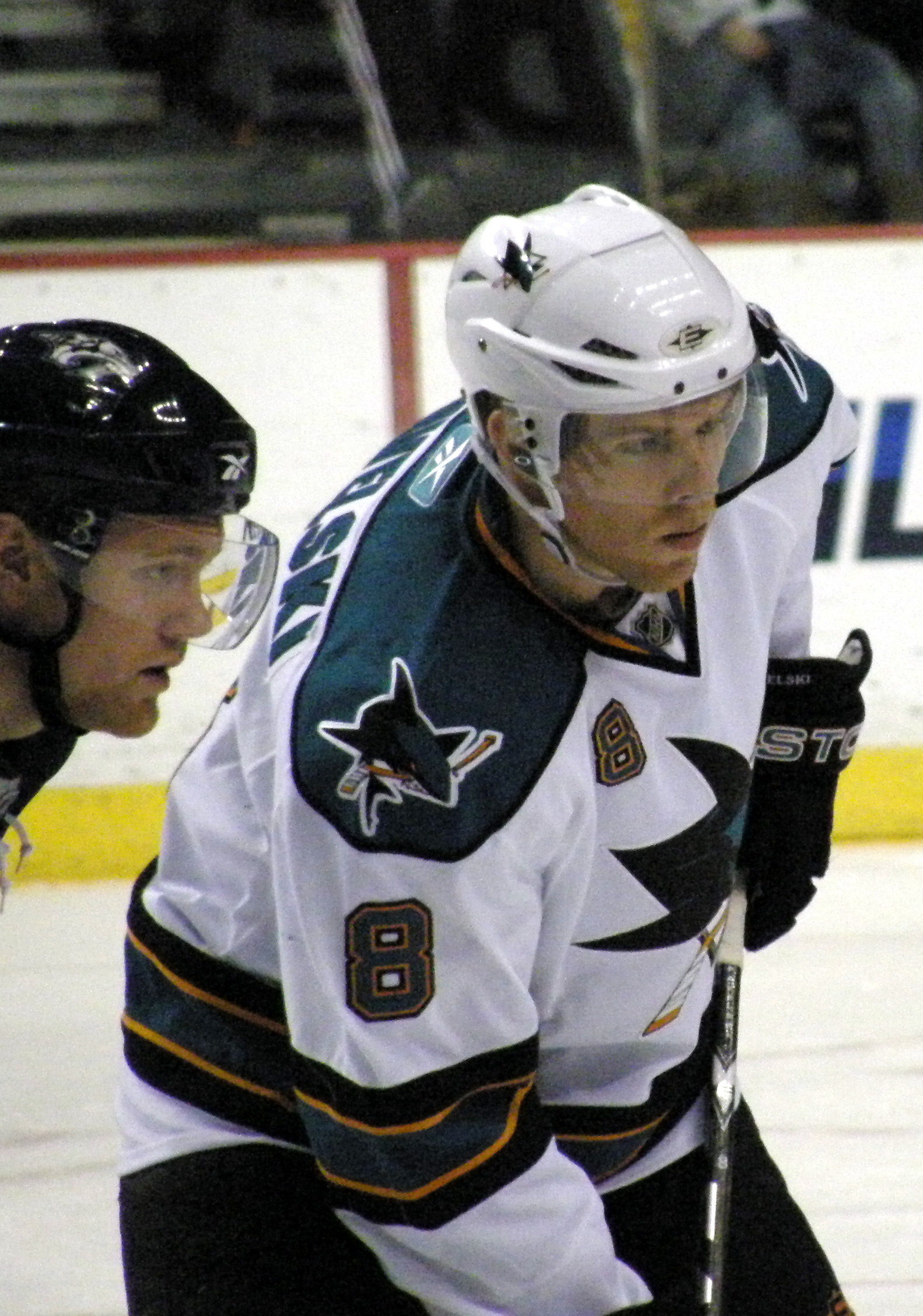 8, Joe Pavelski, C, SJS (unknown Predator on the left) San Jose Sharks at Nashville Predators, February 6, 2010